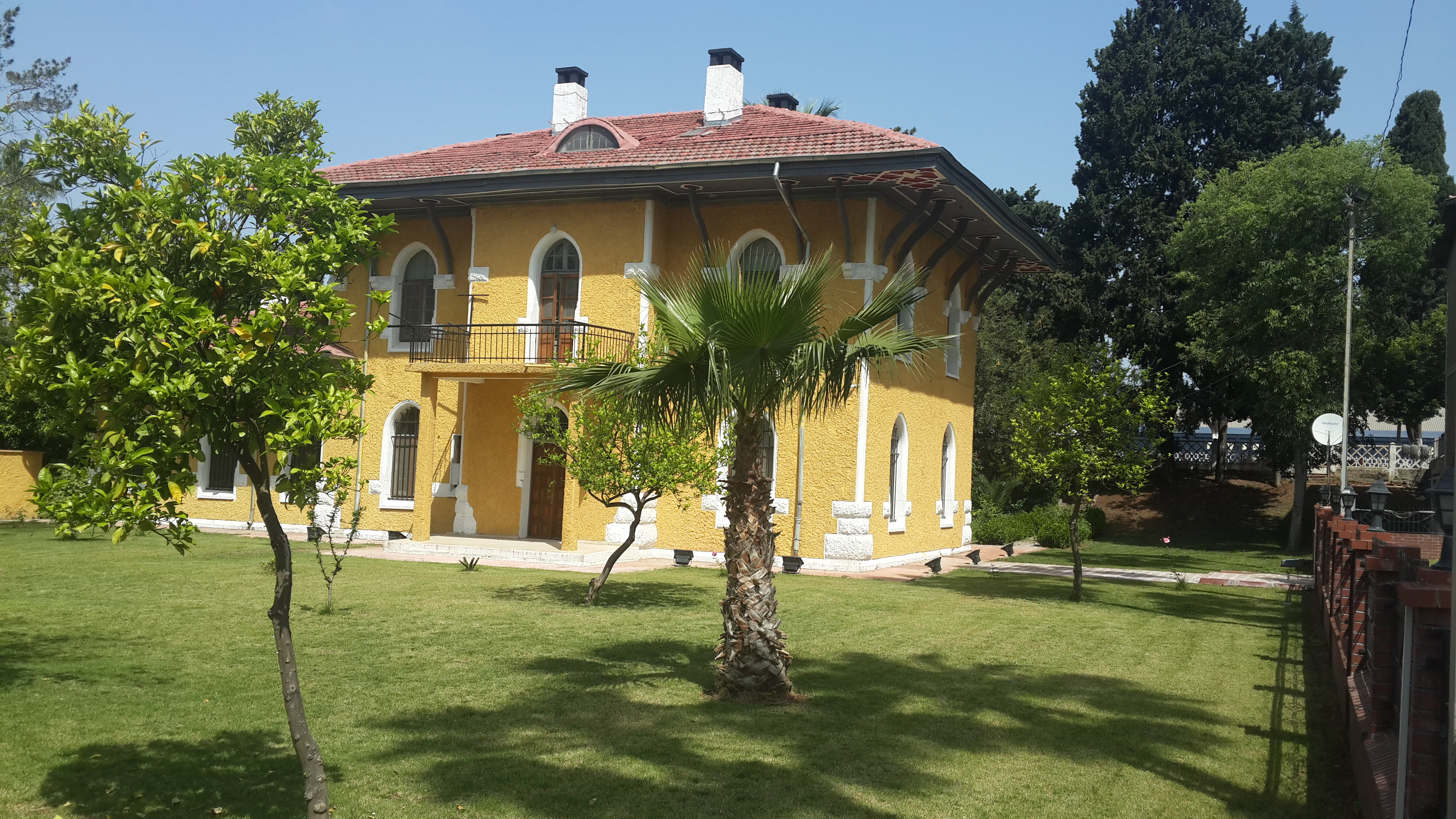 TCDD Residence at the Adana Central railway station